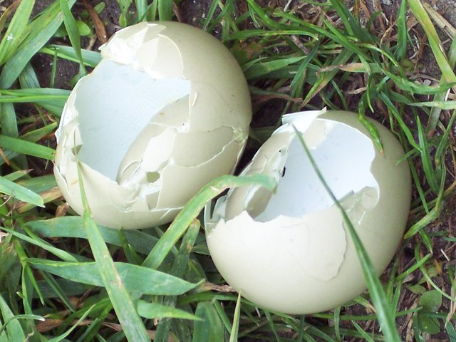 Pheasant egg shells Found near Faulston Farm buildings. I am not sure if the eggs have been predated or hatched.